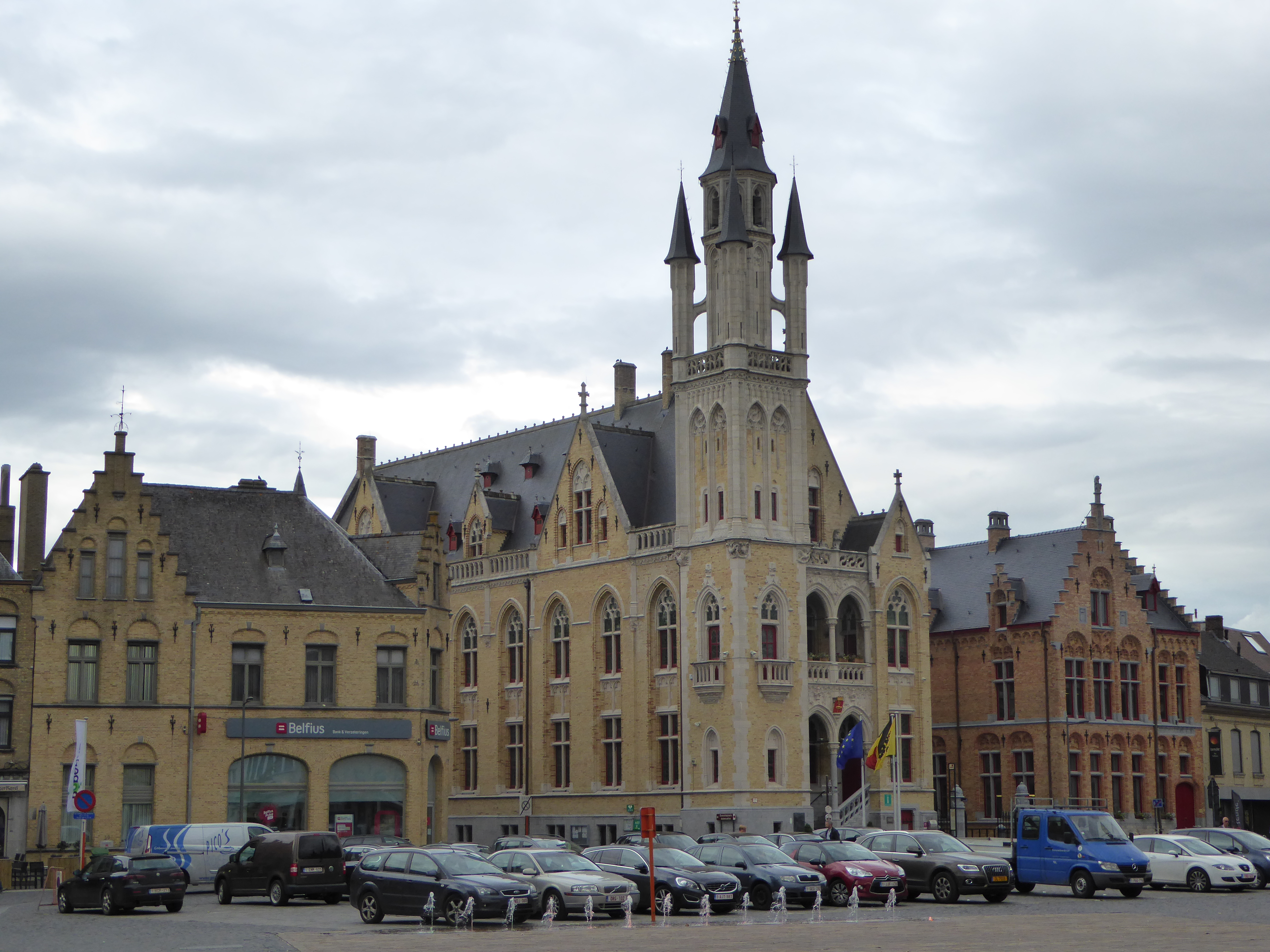 City Hall of Poperinge